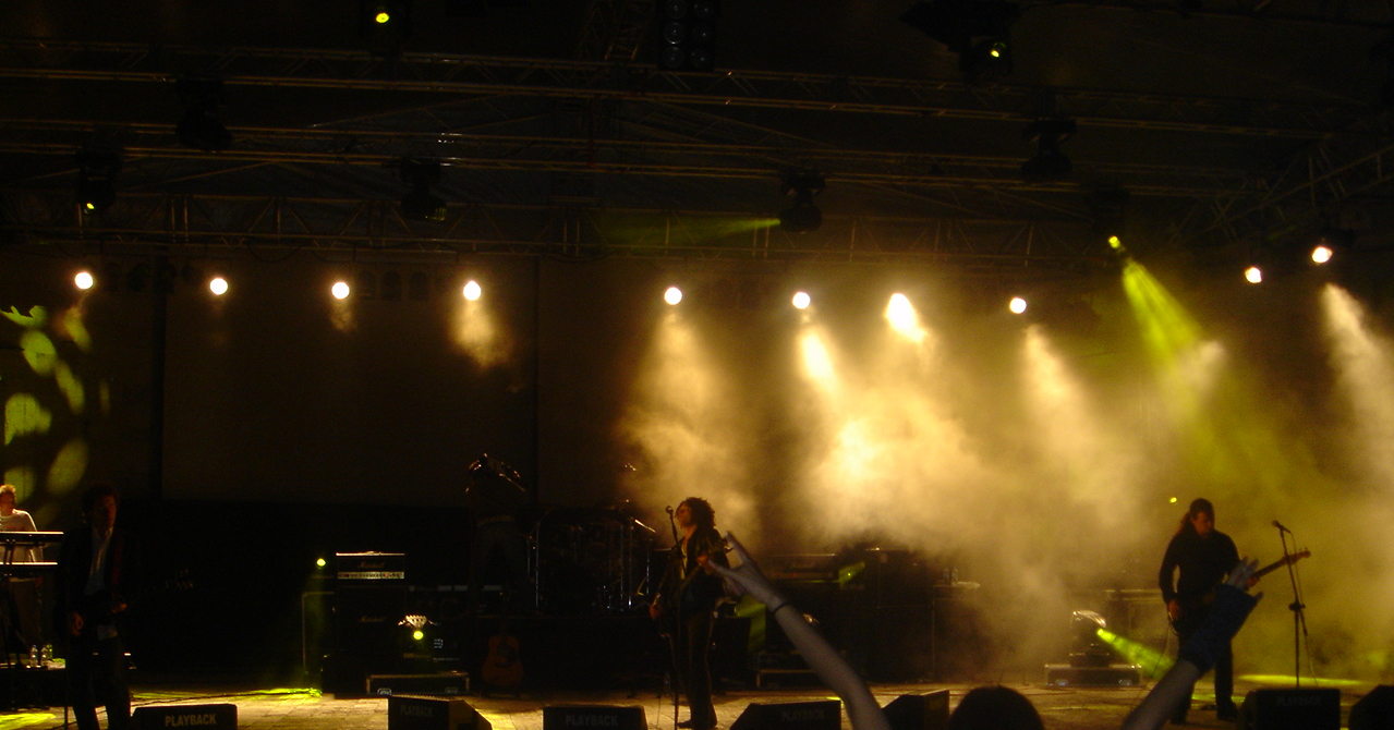 Anathema's 20 May 2005 concert in Harbiye Acık Hava Theatre, Istanbul.